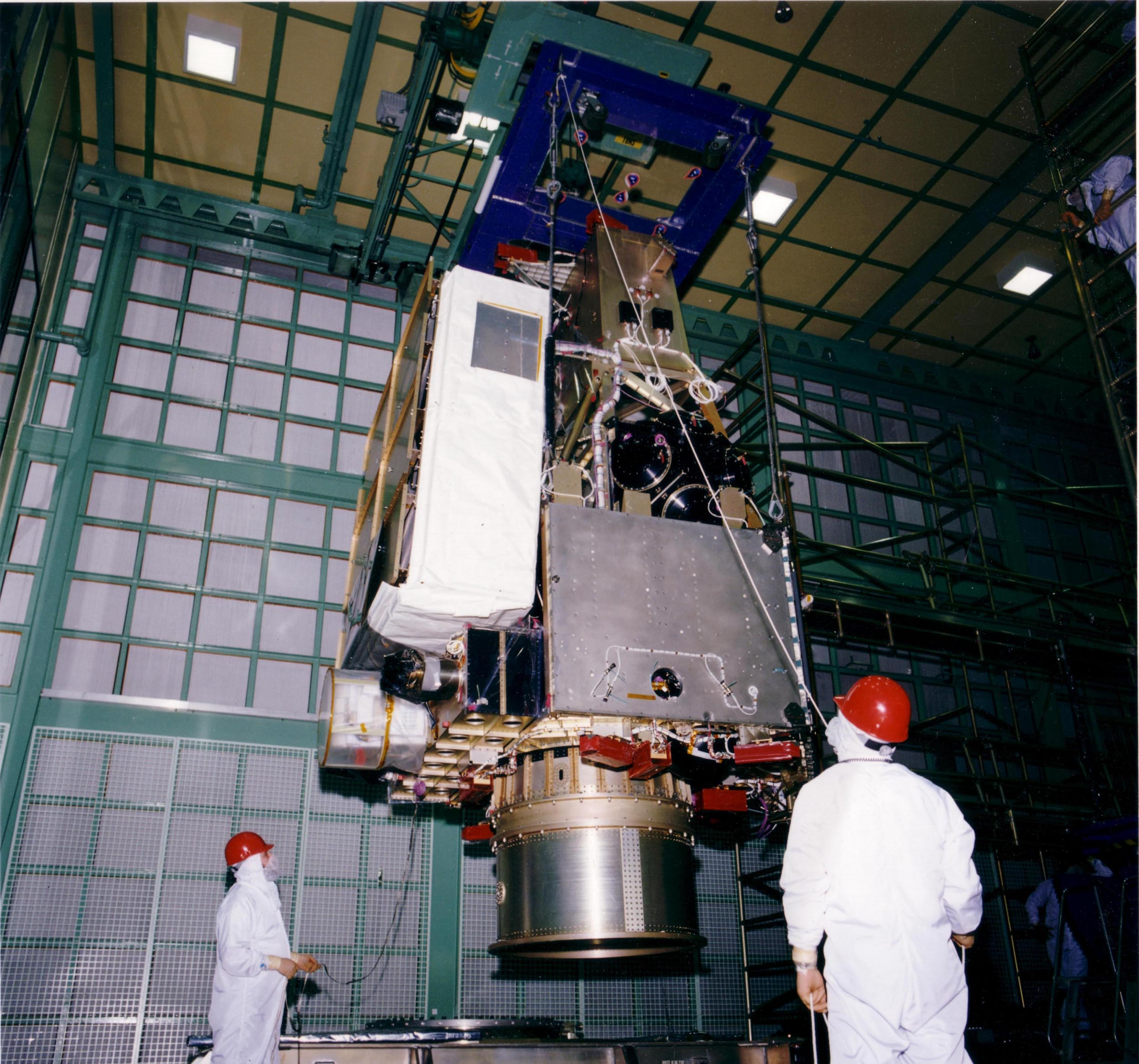 The TRMM satellite being assembled at Goddard Space Flight Center.